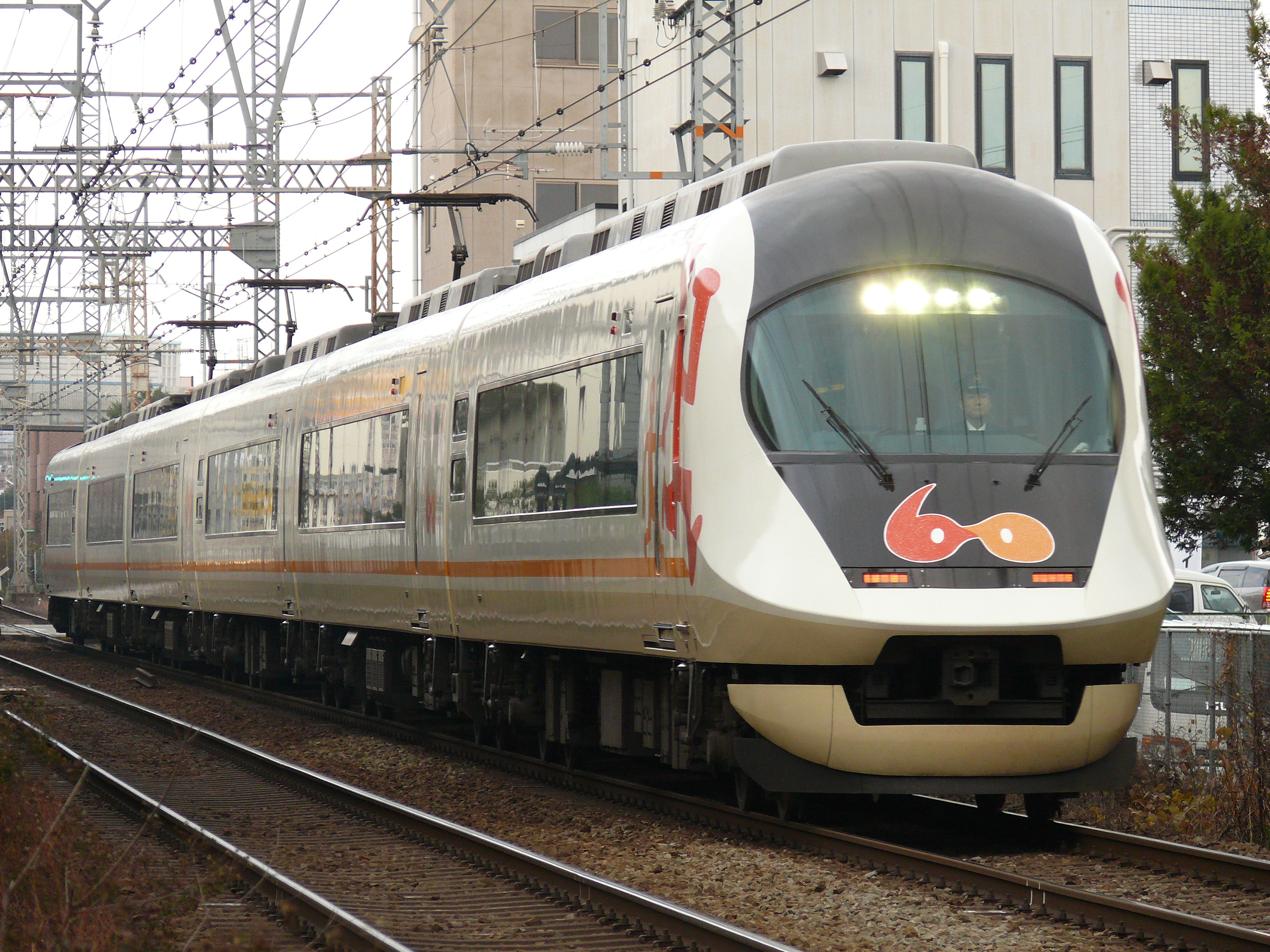 A Kintetsu 21020 series EMU